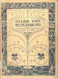 novel Hilda van Suylenburg (1st pr., 1897)